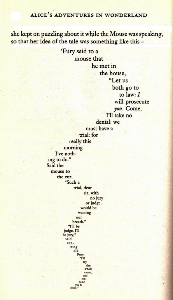 A reproduction of "The Mouse's Tale", p.36 in the 1865 edition of Lewis Carroll's The Adventures of Alice in Wonderland